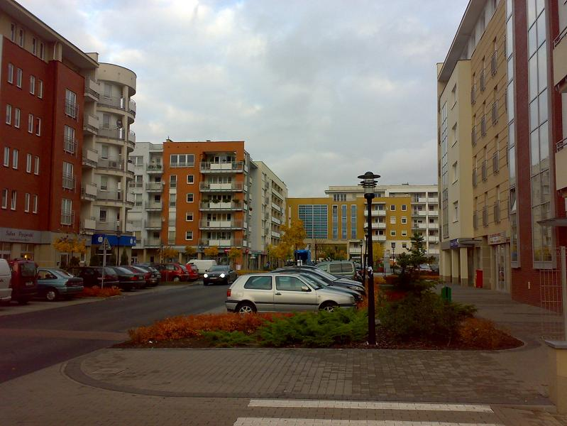 Poznan, Polanka - center of District.